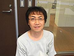 Video Game Composer